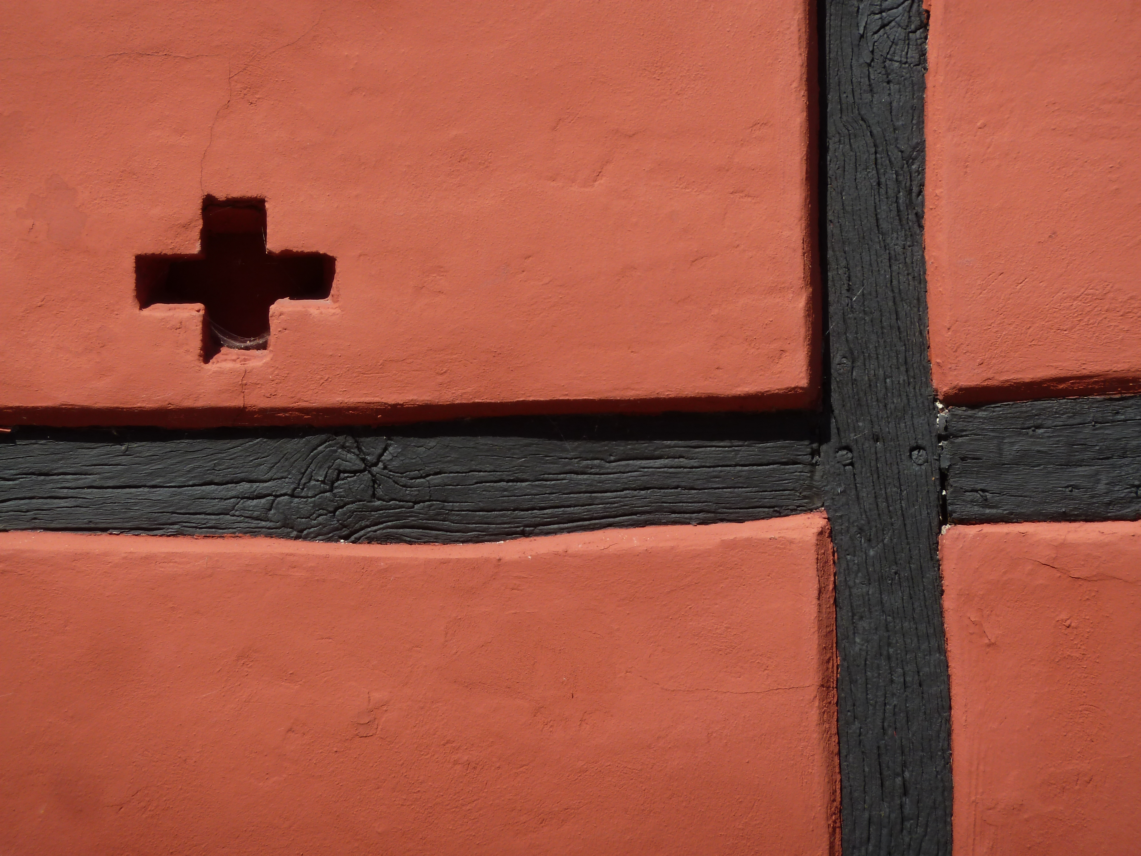 A crossed-shaped ventilation hole in the low, western extension of Scavenius' Stiftelse in Sorø, Denmark